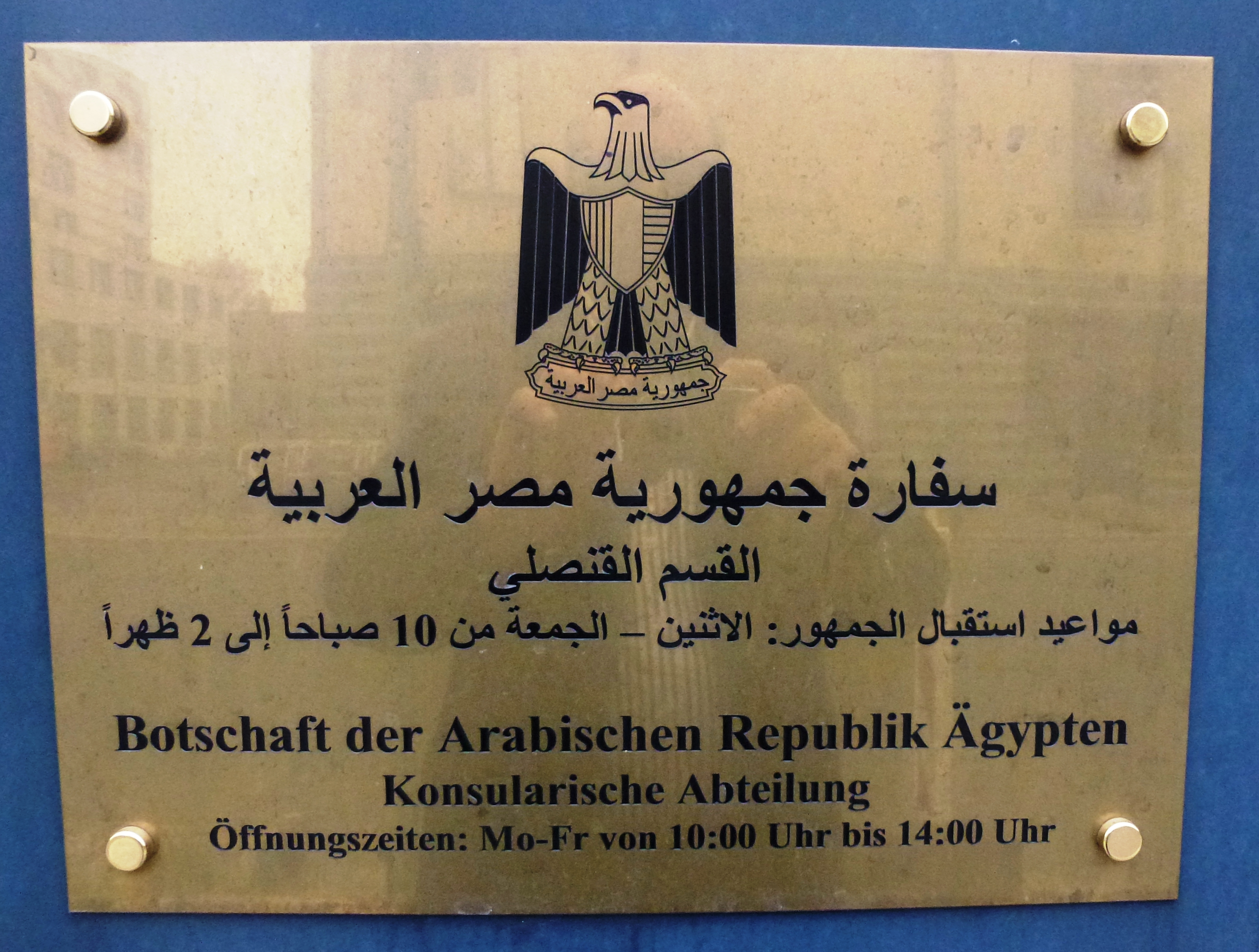 Egyptian Ambassy in Berlin Germany